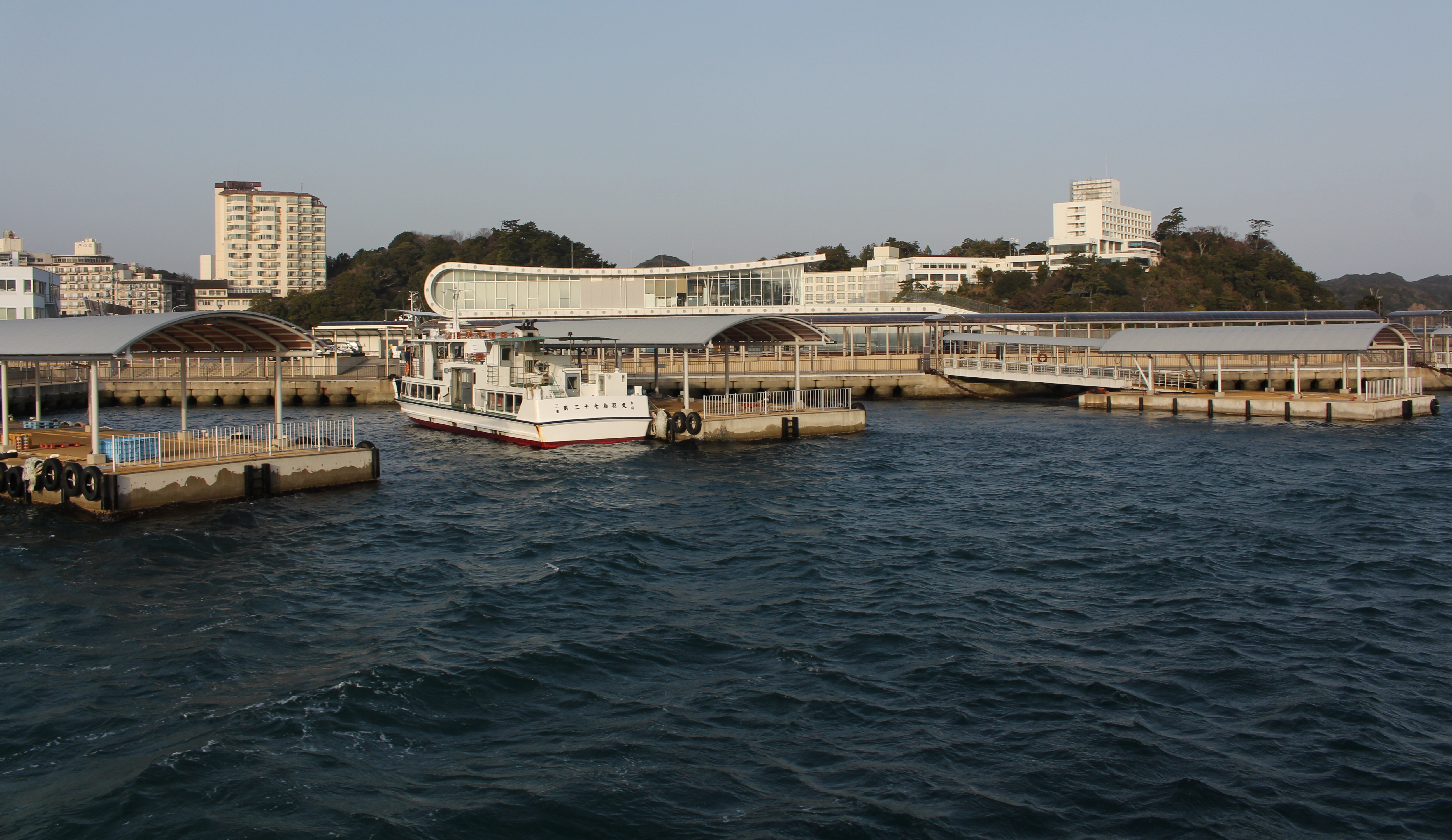 Toba Marine Terminal Sadahama seen from sea, in Toba, Mie prefecture, Japan.